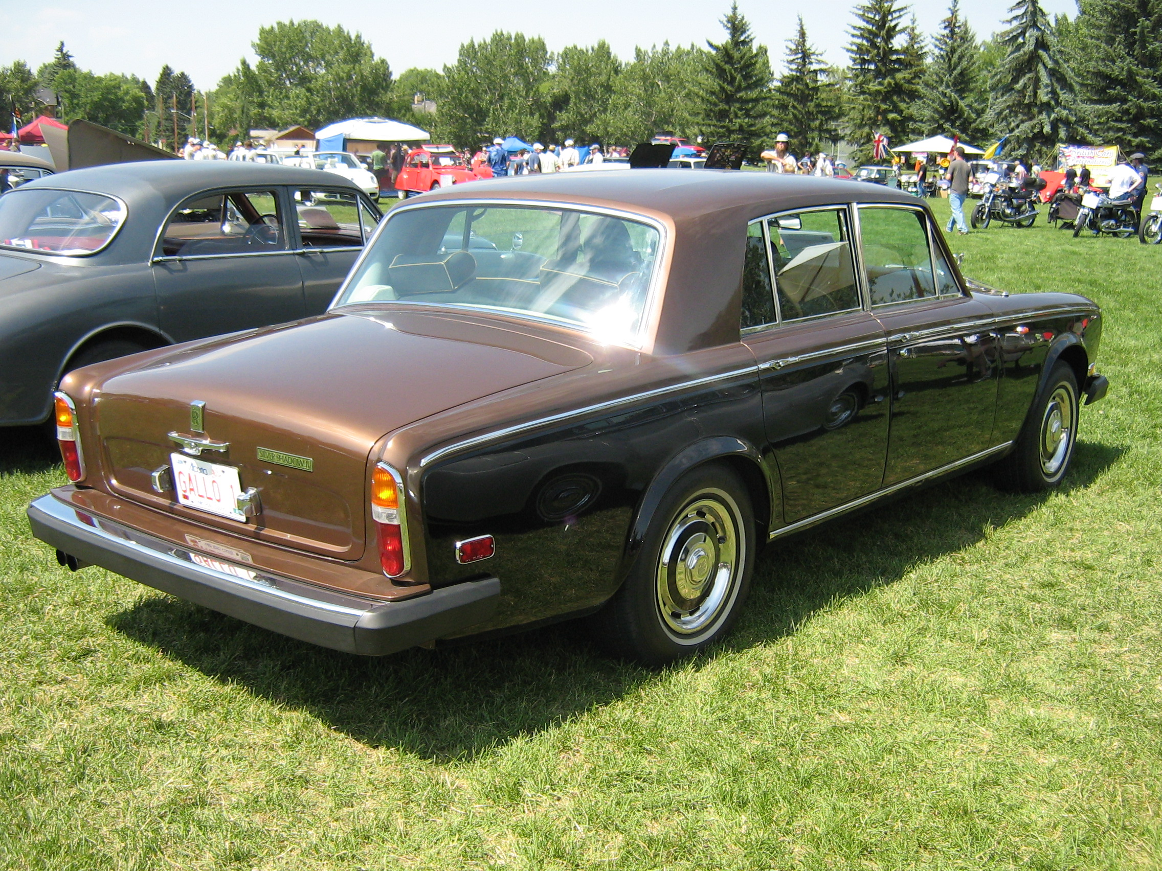 Rolls Royce